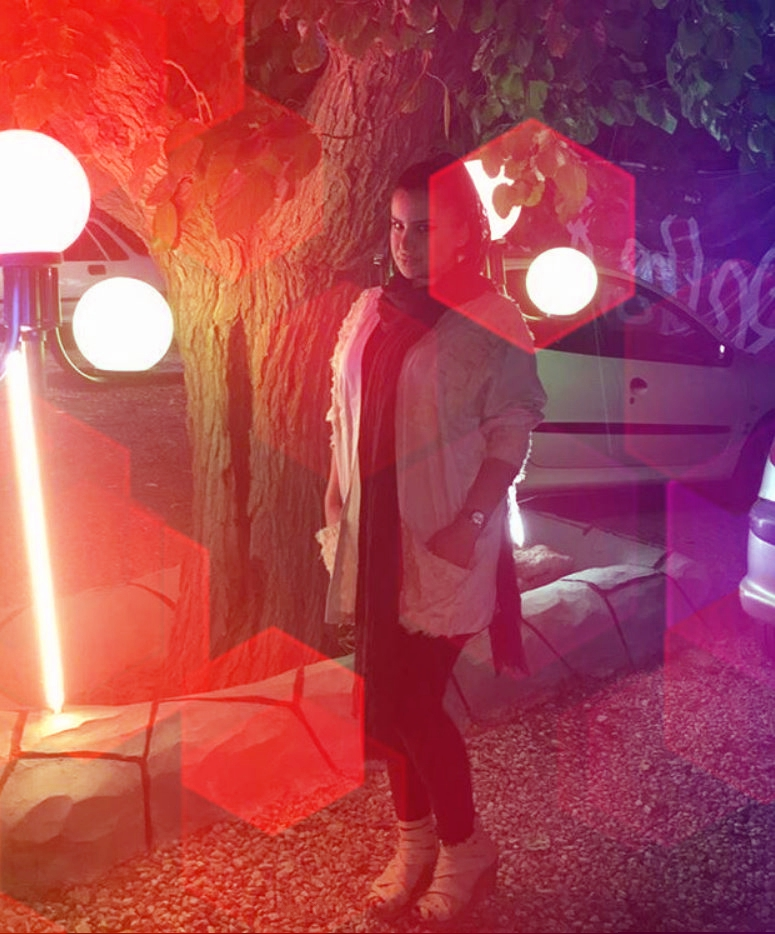 For educational use in editing images article. The image was taken by my mobile camera. (1396 Irn)